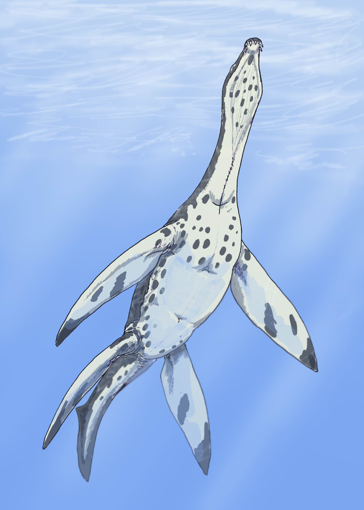 Meyerasaurus victor (jr synonym Rhomaleosaurus victor